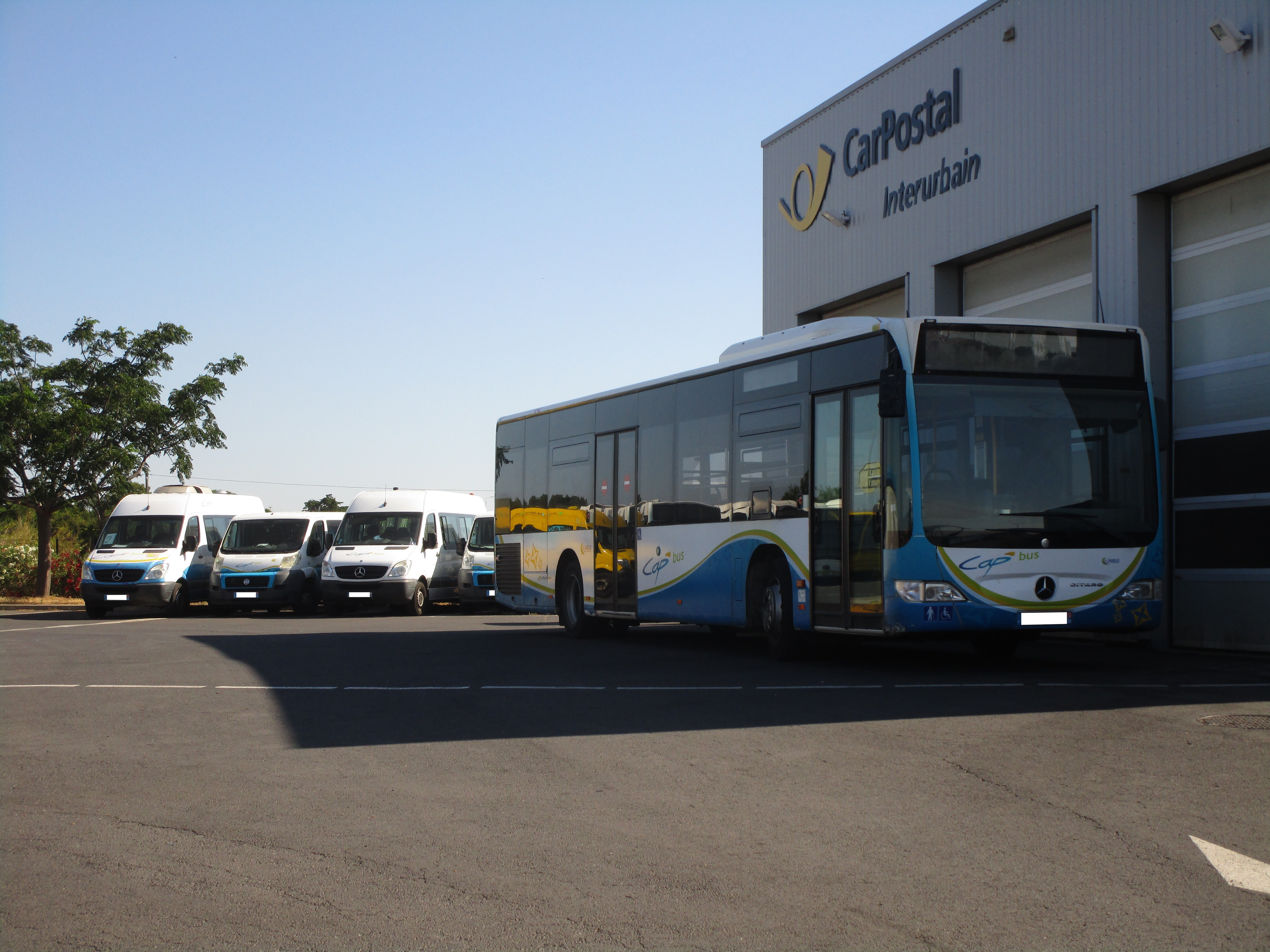 Few buses of Cap’Bus at the yard — in Agde, France — on June 25, 2017.